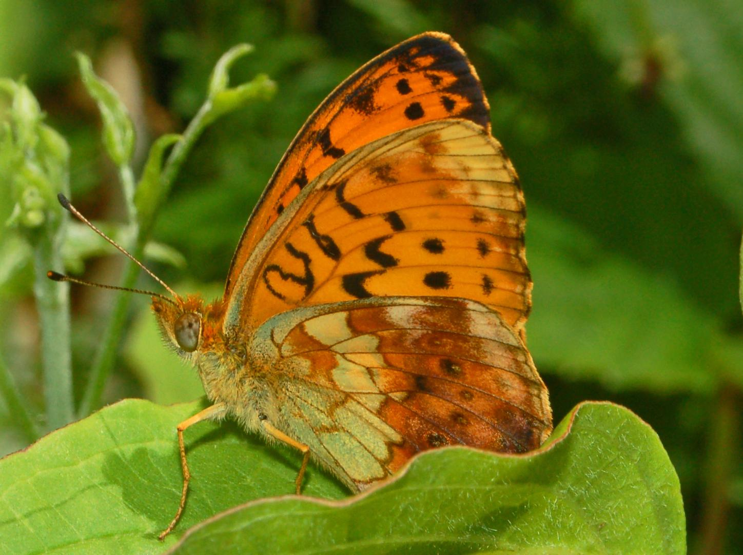 "Brenthis daphne". Val Noci, Genova, Italy